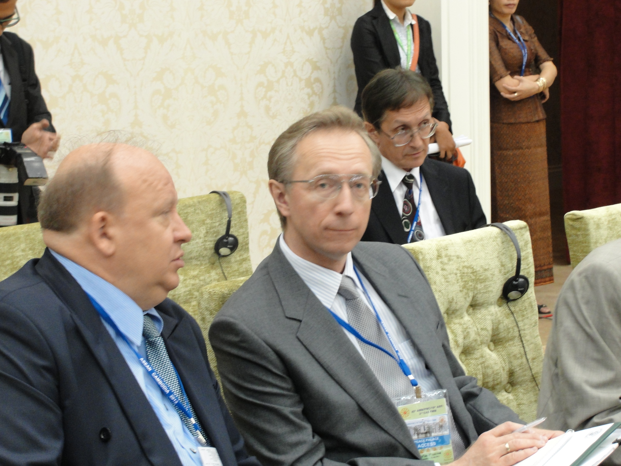 Ambassador M.Yu. Galuzin in July 2012 in Phnom Penh